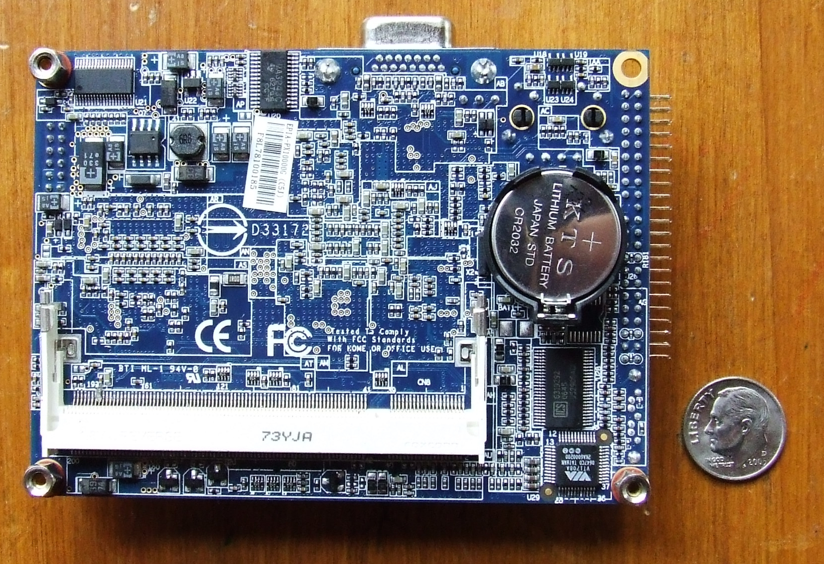 Bottom view of EPIA PX10000G Motherboard with dime for size comparison.